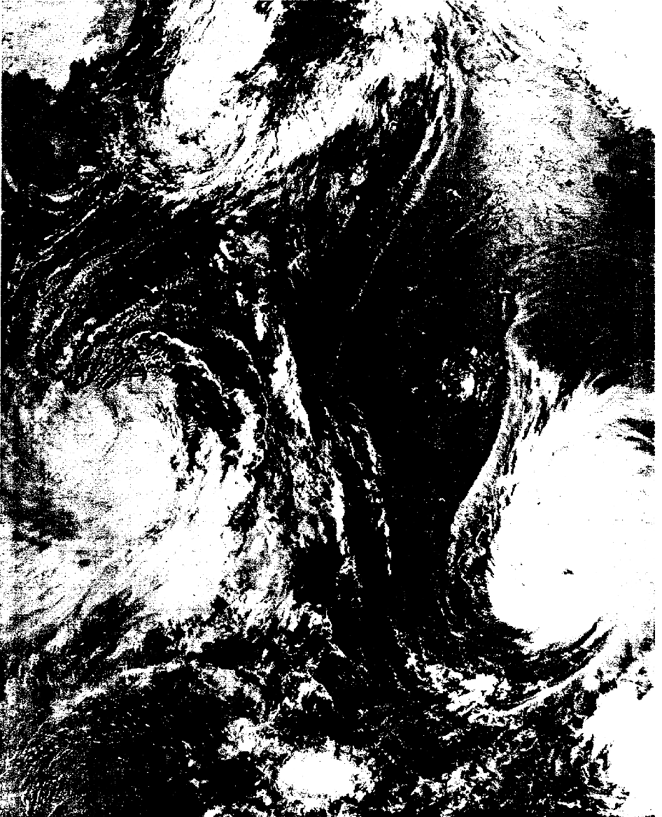 Typhoon Rita (left) centered 400 nm southwest of Iwo Jima dominates the Philippine Sea. Typhoon Tess (right) 400 nm south of Marcus Island is at peak intensity (125 kt). The remains of Phyllis are located over western Honshu